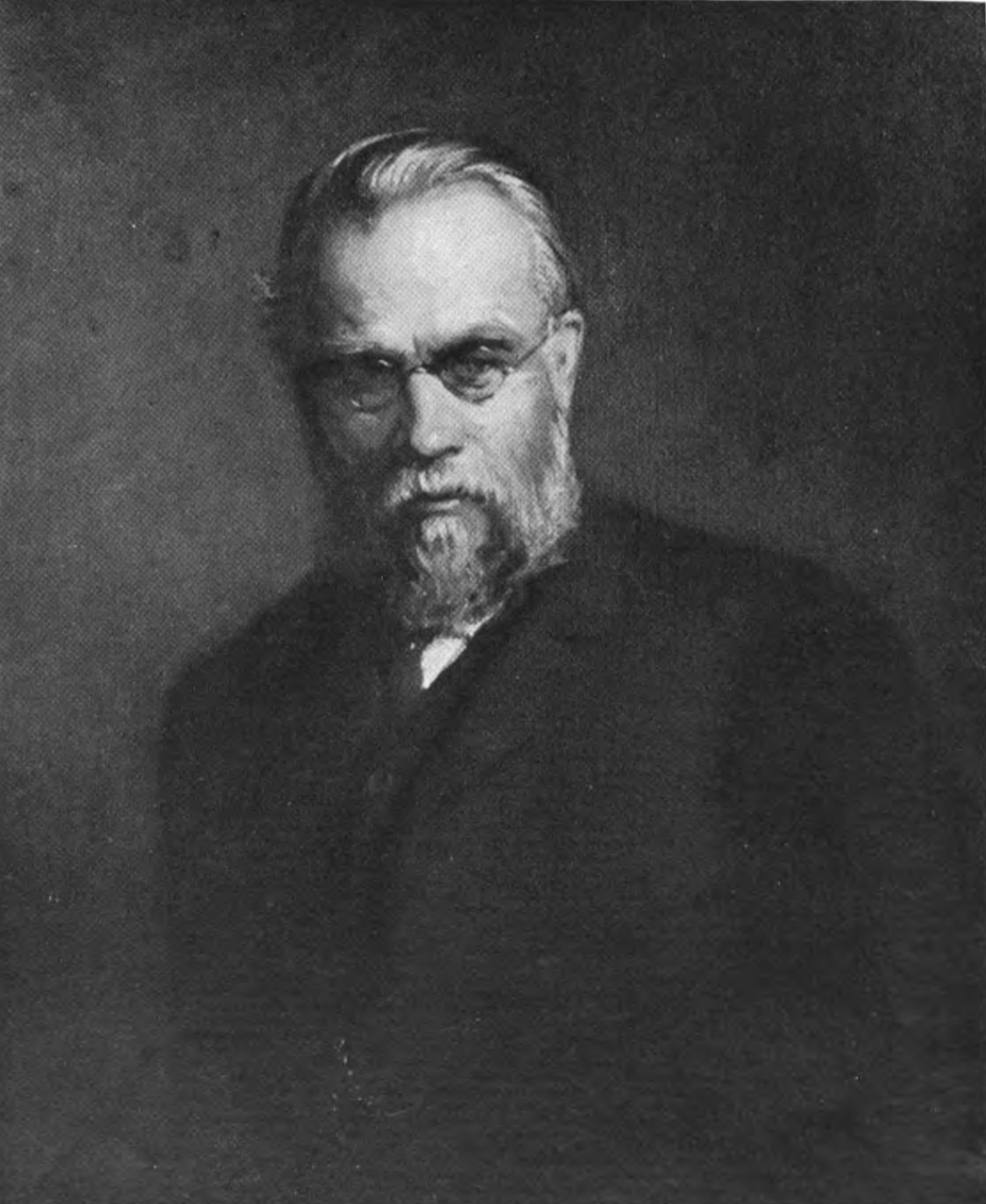 Black & White photo of a portrait of Frederick Rogers, British bookbinder and first Chairman of the Labour Representation Committee